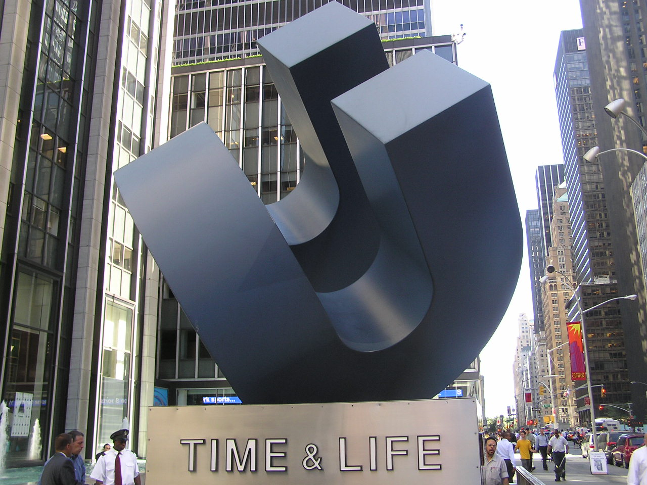 Curved Cube, by American sculptor William Crovello, outside the Time & Life Building in New York City